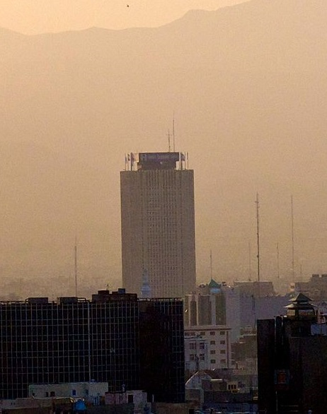 cut from